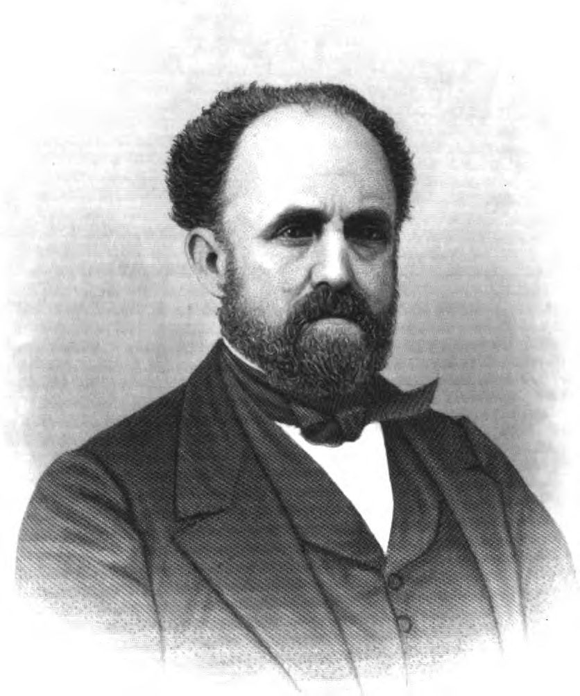 Hezekiah S. Bundy, member of the United States House of Representatives in 43rd Congress.